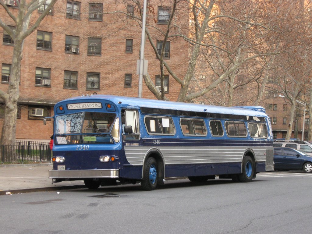 1973 Flxible 53102-6-1 #7340 in the Lower East Side of Manhattan, NY, (New York City) running in special holiday service for the NYC Transit Authority. This bus is part of the museum fleet for the same agency.